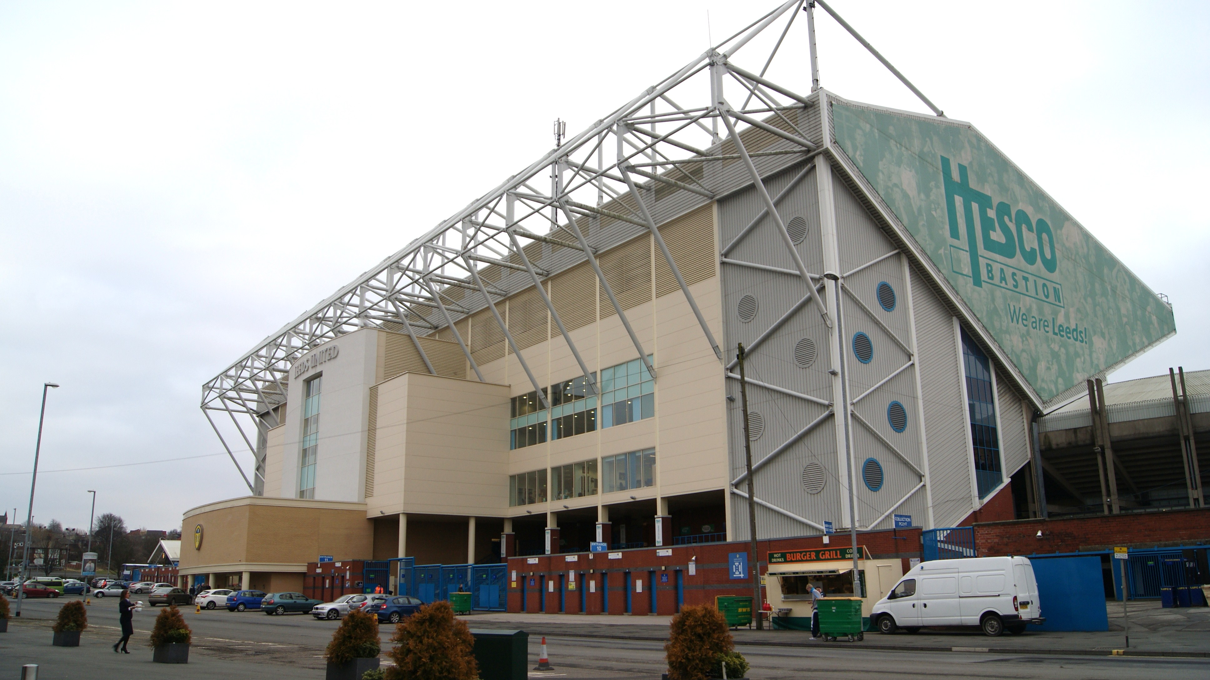 The East Stand at Elland Road after a face lift. This was taken an hour or two before a league match with Blackpool which Leeds won 2-0. Taken on the evening of Wednesday the 20th of October 2013.